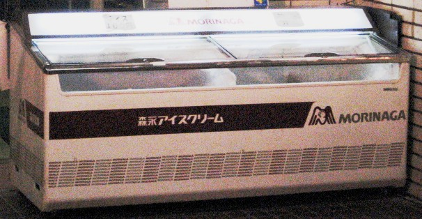 Morinaga Ice cream frozen case. Angel mark to now desgin.